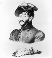 Jean Emile Humbert, the Dutch lieutenant-colonel who can be credited with rediscovering ancient Carthage. Source picture: Rijksmuseum van Oudheden, Leiden